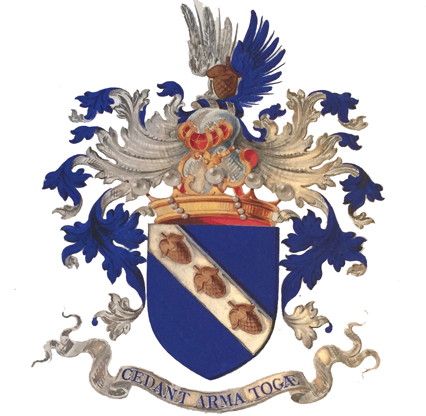 Coat of Arms of the Parthon de Von family, Armorial du Royaume de Belgique